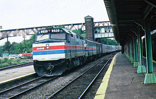 A southbound Amtrak train - based on the consist, probably the Lake Shore Limited - at Poughkeepsie station in 1978